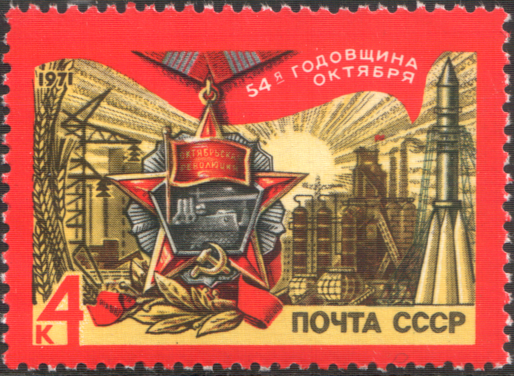 USSR stamp: Order of the October Revolution and Building Construction. Series: 54th Anniversary of Great October Socialist Revolution